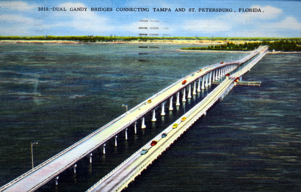 Postcard showing the dual Gandy Bridges connecting Tampa and Saint Petersburg, Florida.